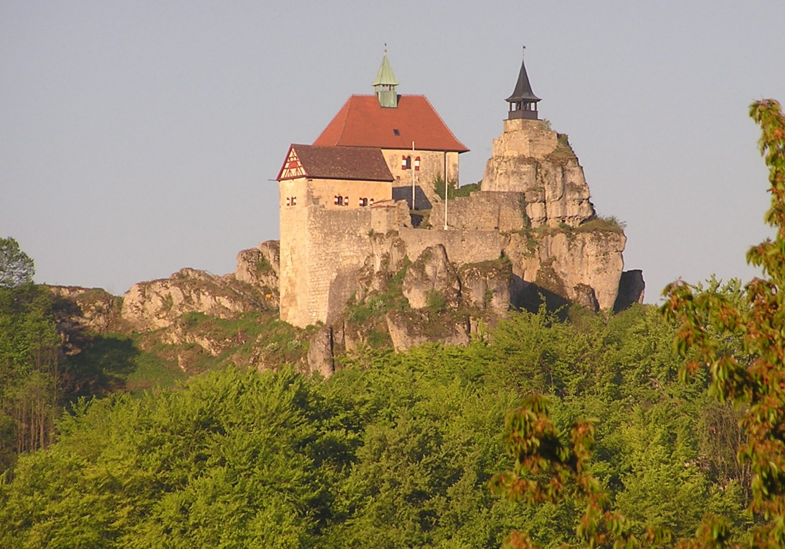 The remains of castle Hohenstein (near the german town of Hersbruck)